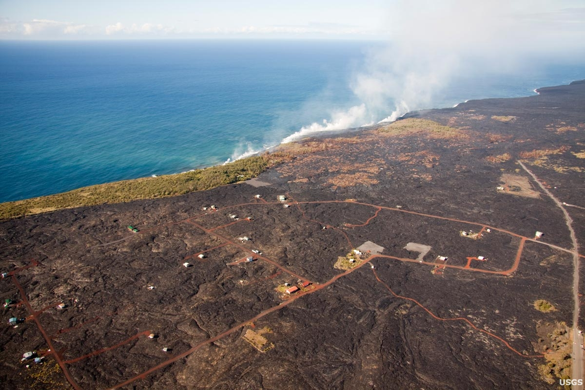 Kalapana in 2010-08-06 View looking southwest across the Kalapana Gardens subdivision toward the ocean entries in the background. The slightly lighter-colored surface just past the houses and topped by burned trees marks the area recently covered by lava. USGS